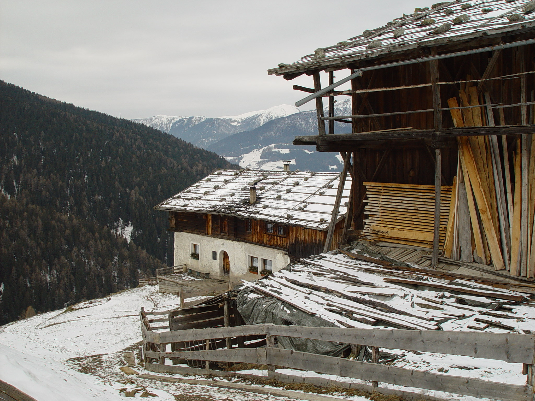 View on farm houses in Reinswald / San Martino